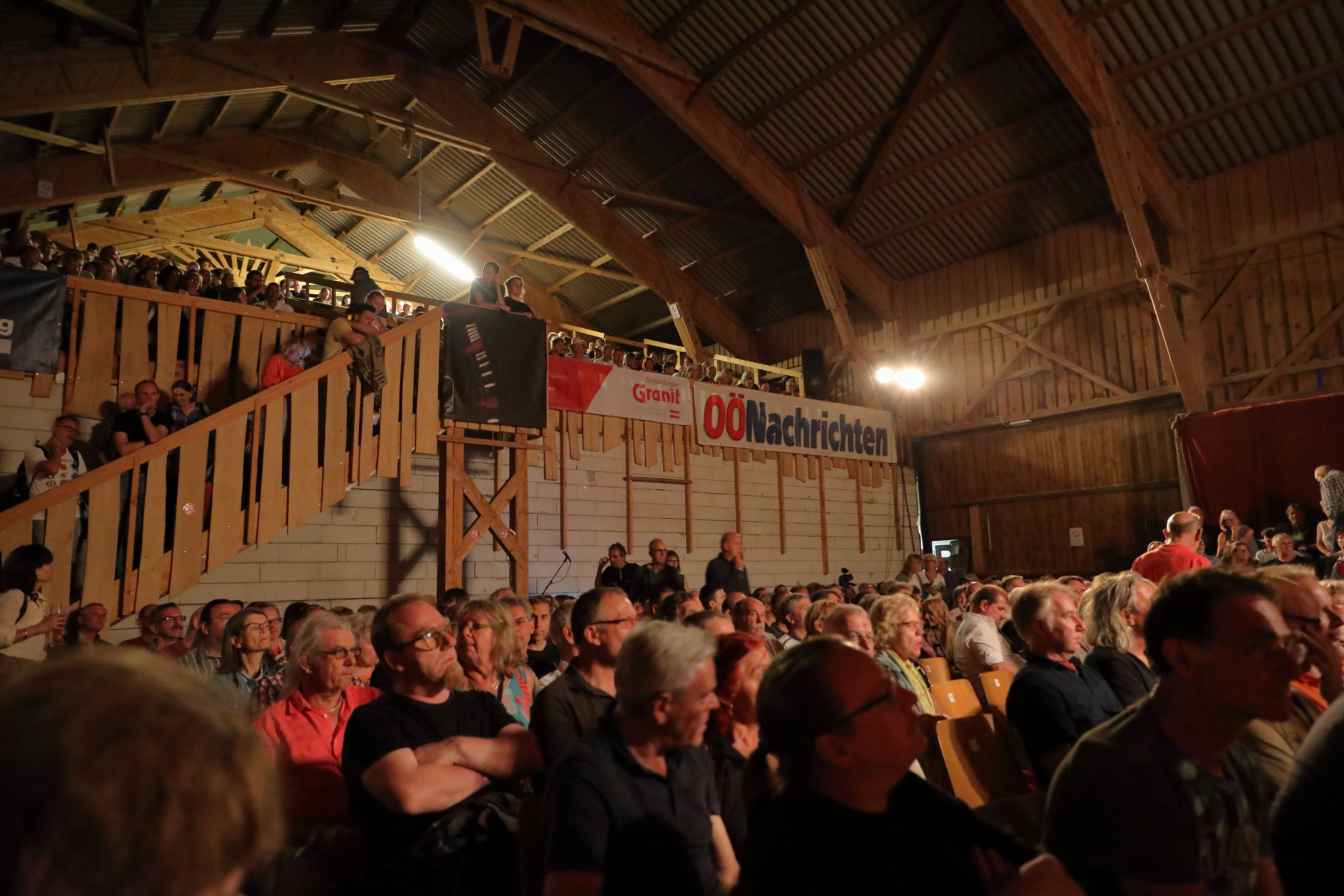 Beginning of a concert in the "barn" at INNtöne Jazzfestival, 2019.